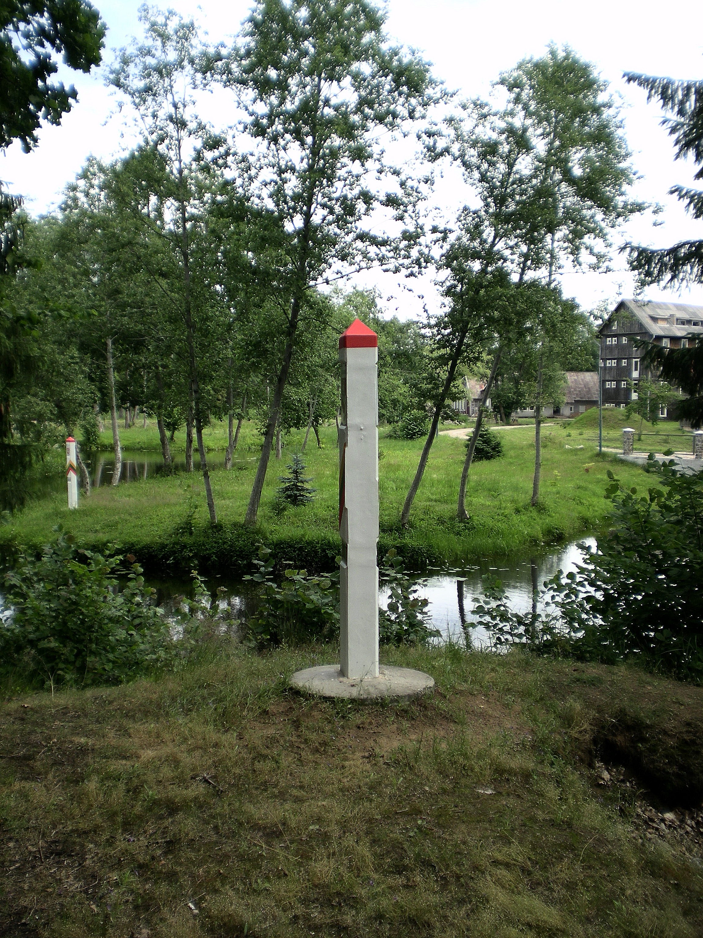 Latvia - Lithuania border near Rucava